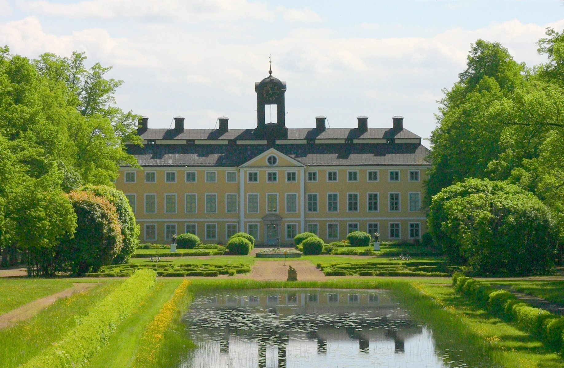 Sturefors castle outside Linköping, Sweden